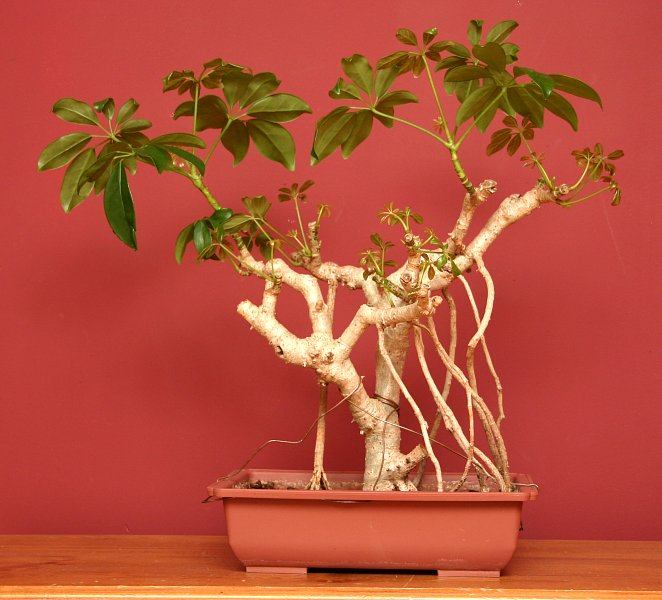 Schefflera arboricola with aerial roots